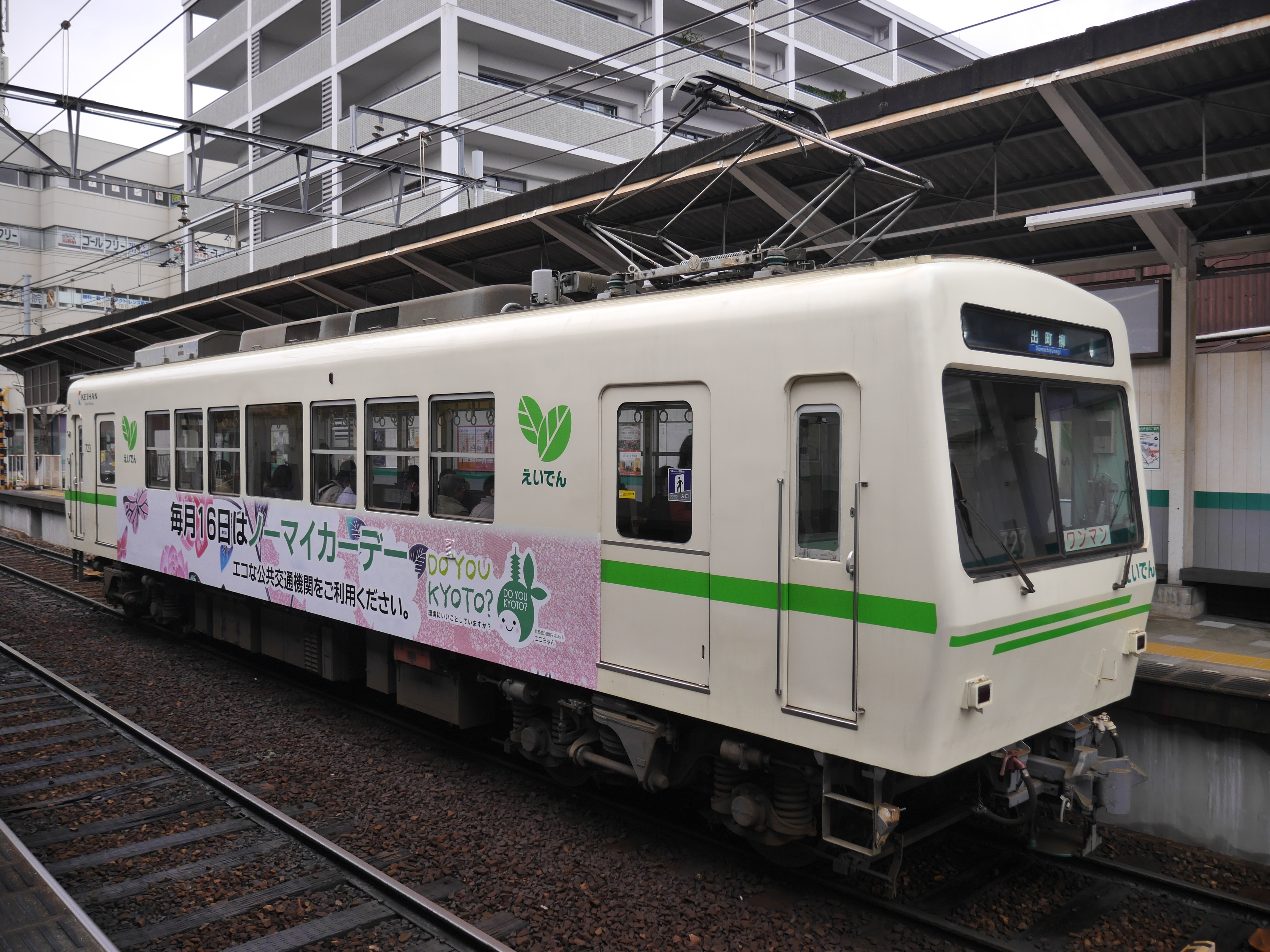 Eizan Electric Railway Deo (Large size driving motor car) 723 covered with "Do You Kyoto?" decoration at Shugakuin station